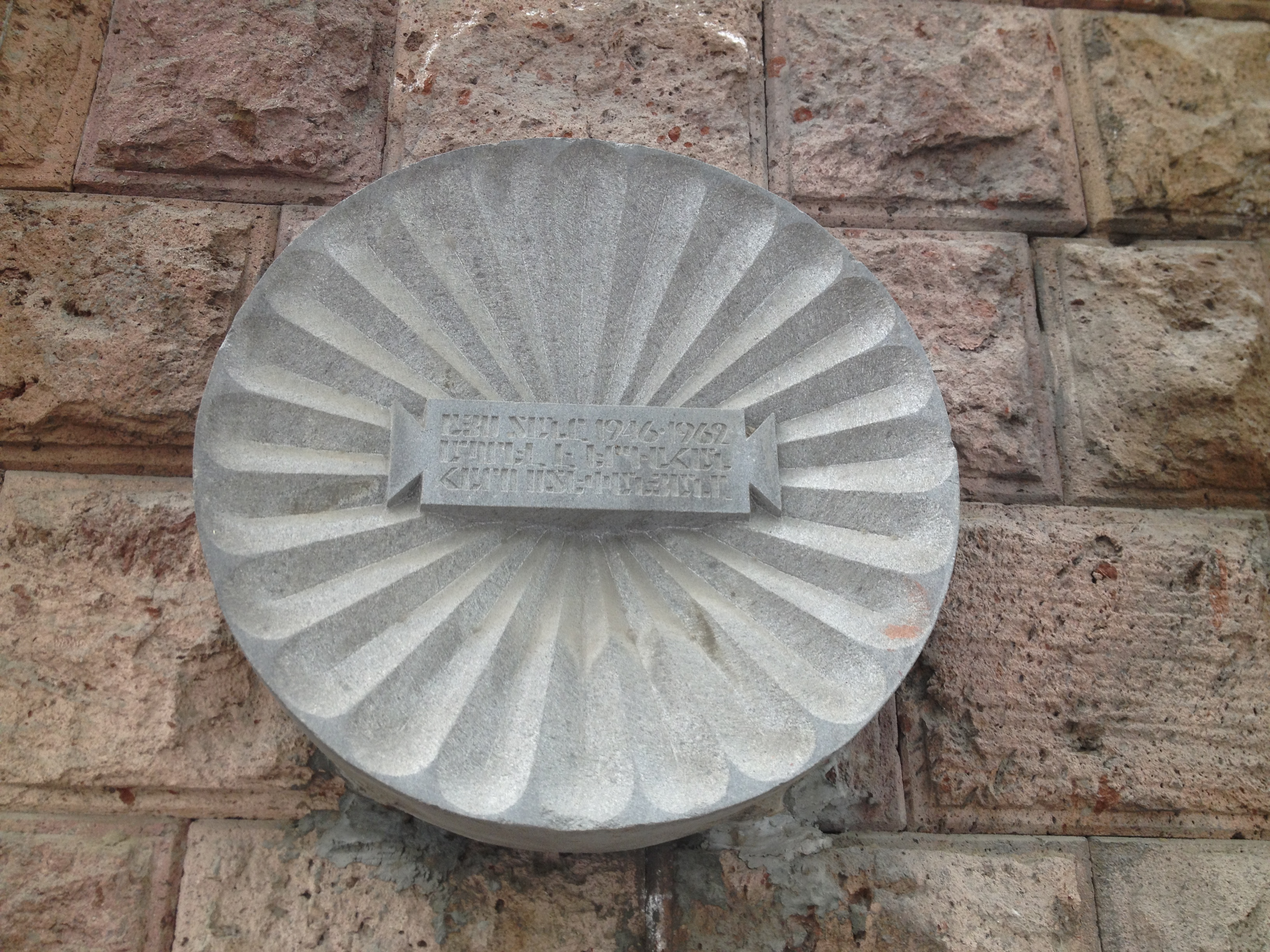 Plaque of Aro Stepanian - Yerevan.